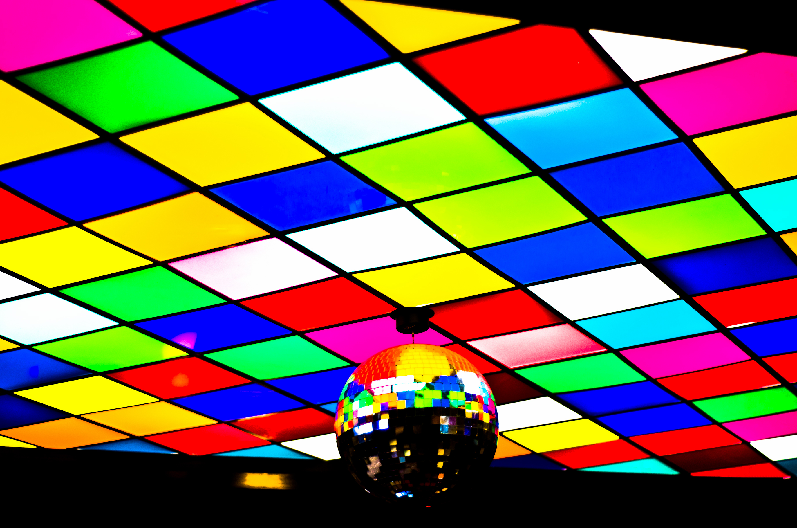 A roof of a disco in Arlington, Texas, United States.